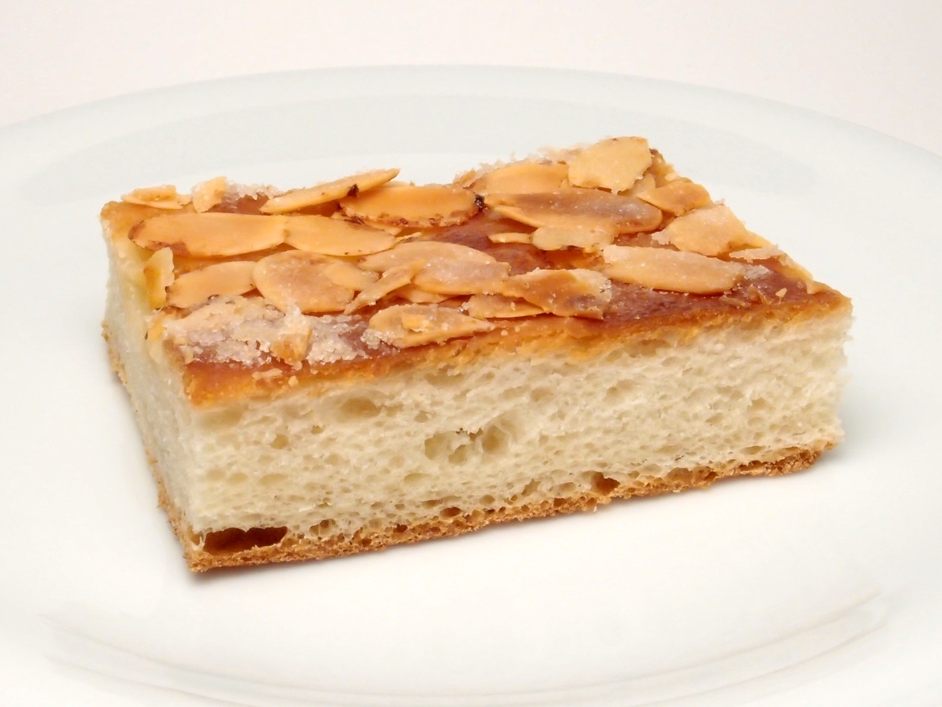 A slice of butter cake with almond chips. This German specialty (Butterkuchen) is a thin, yeast-raised sheet cake topped generously with butter and sugar and optionally other things like the almonds shown here.